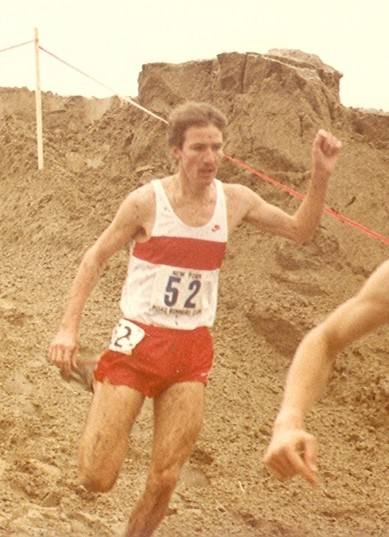 Ed Eyestone at the US XCountry Championships in New York City